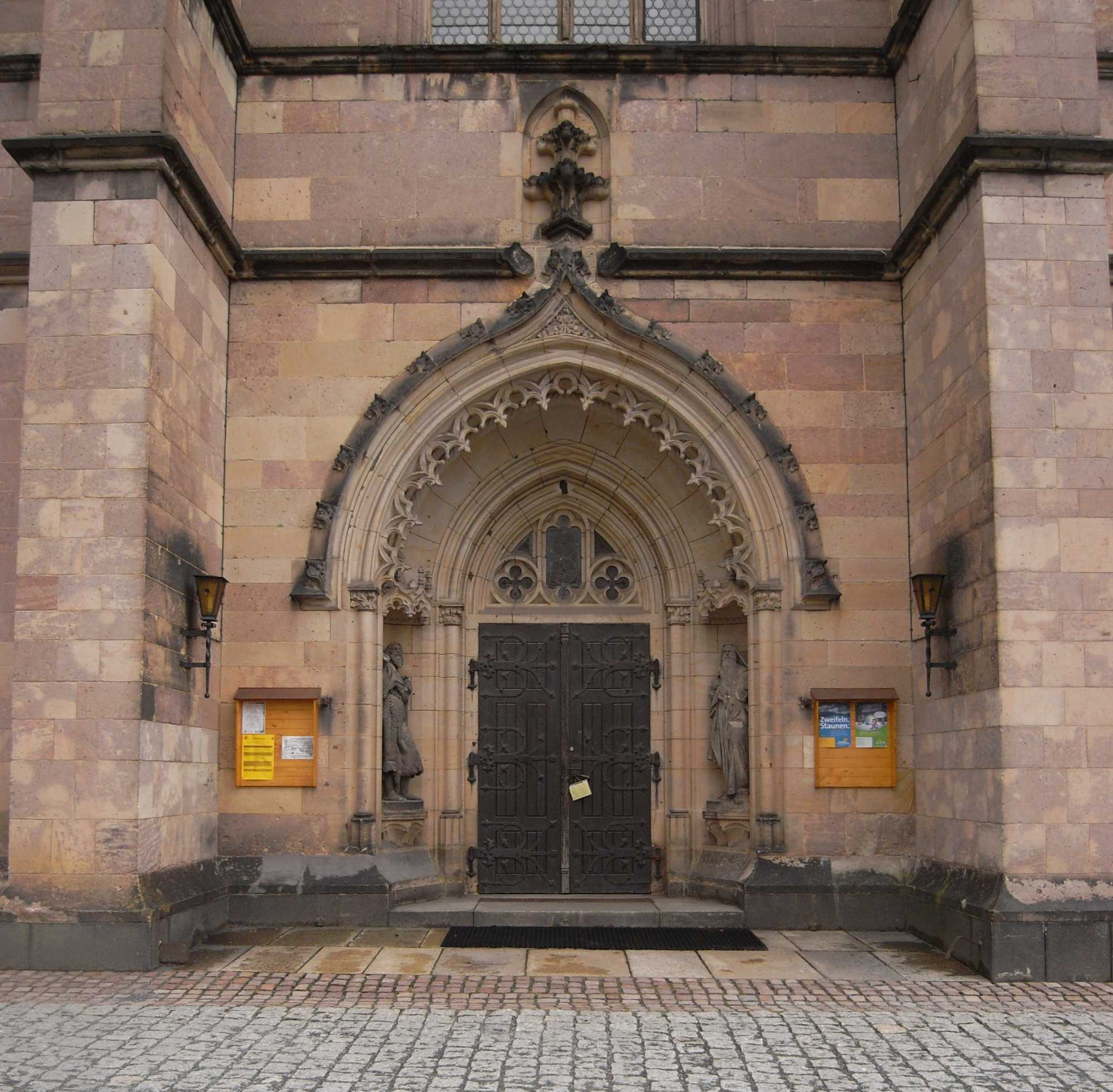 Chemnitz, Palace Church by Benedictinian monastery (built 12. century) (Saxony, Germany)